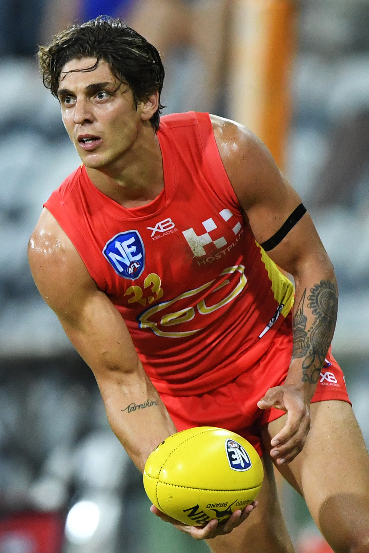 Sean Lemmens of Gold Coast during the 2019 NEAFL round 5 match between NT Thunder and Gold Coast at TIO Stadium on Saturday, 4 May 2019 in Darwin, Australia.